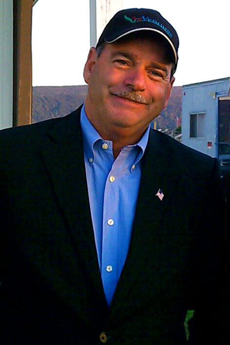 This is a photo of Jerry Carroll.